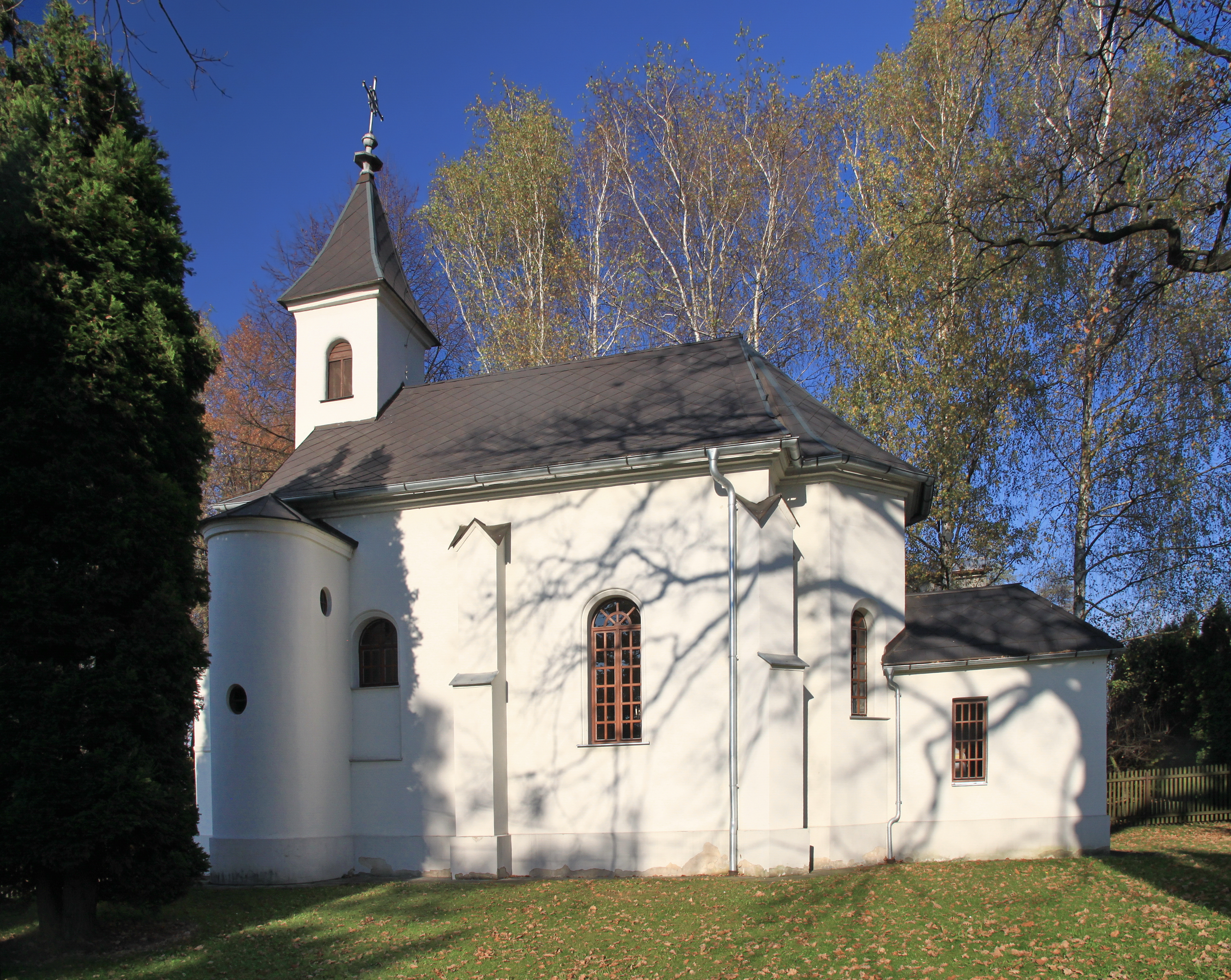 Saint Anne chapel, Kubiszova street, Ráj, Karviná. Moravian-Silesian Region, Czech Republic.